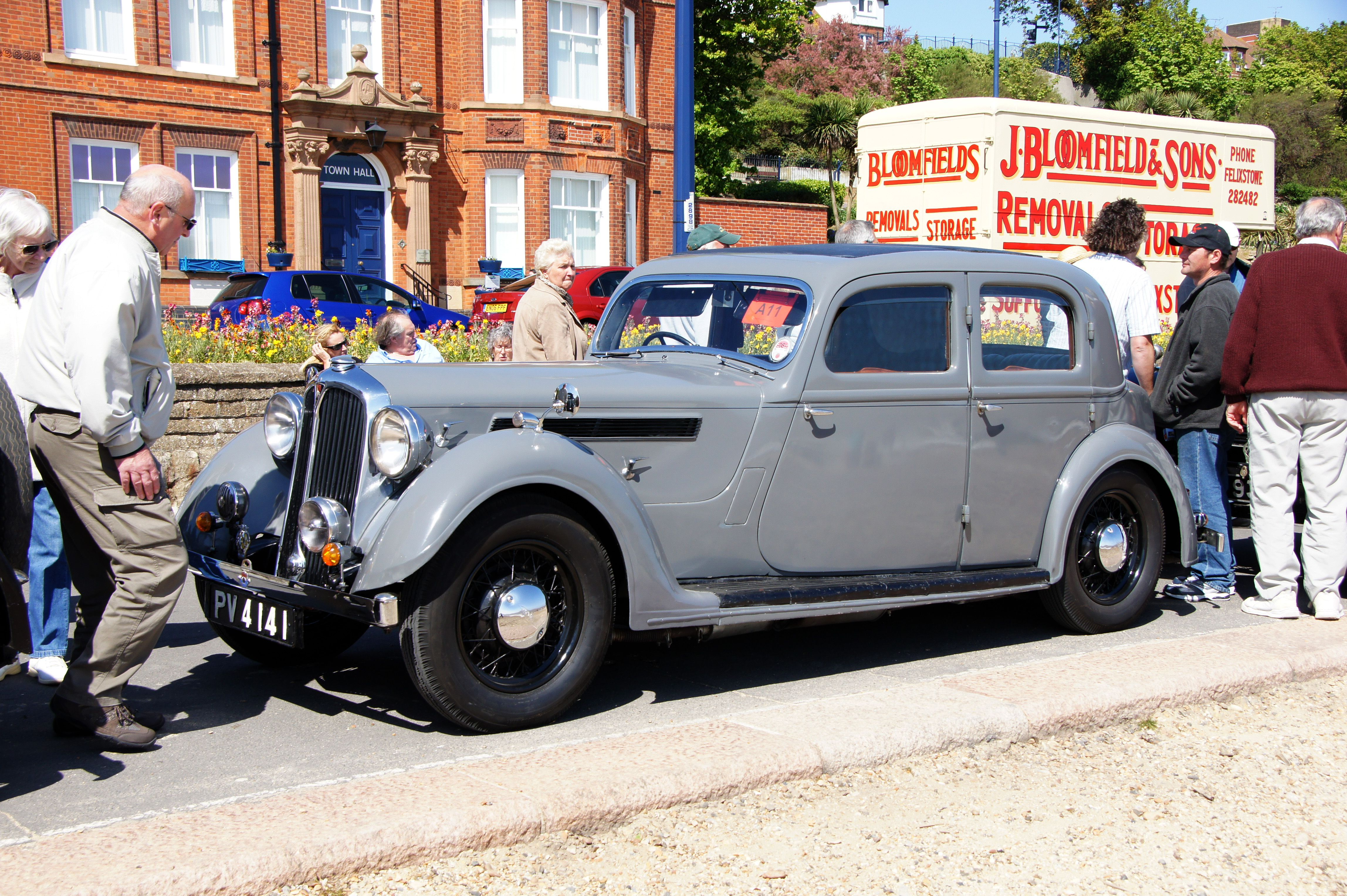 Rover Sports Saloon (DVLA) 1600(?) cc first registered 30 April 1937 This photo was taken on May 1, 2011 in Felixstowe, England, GB, using a Sony DSLR-A550.